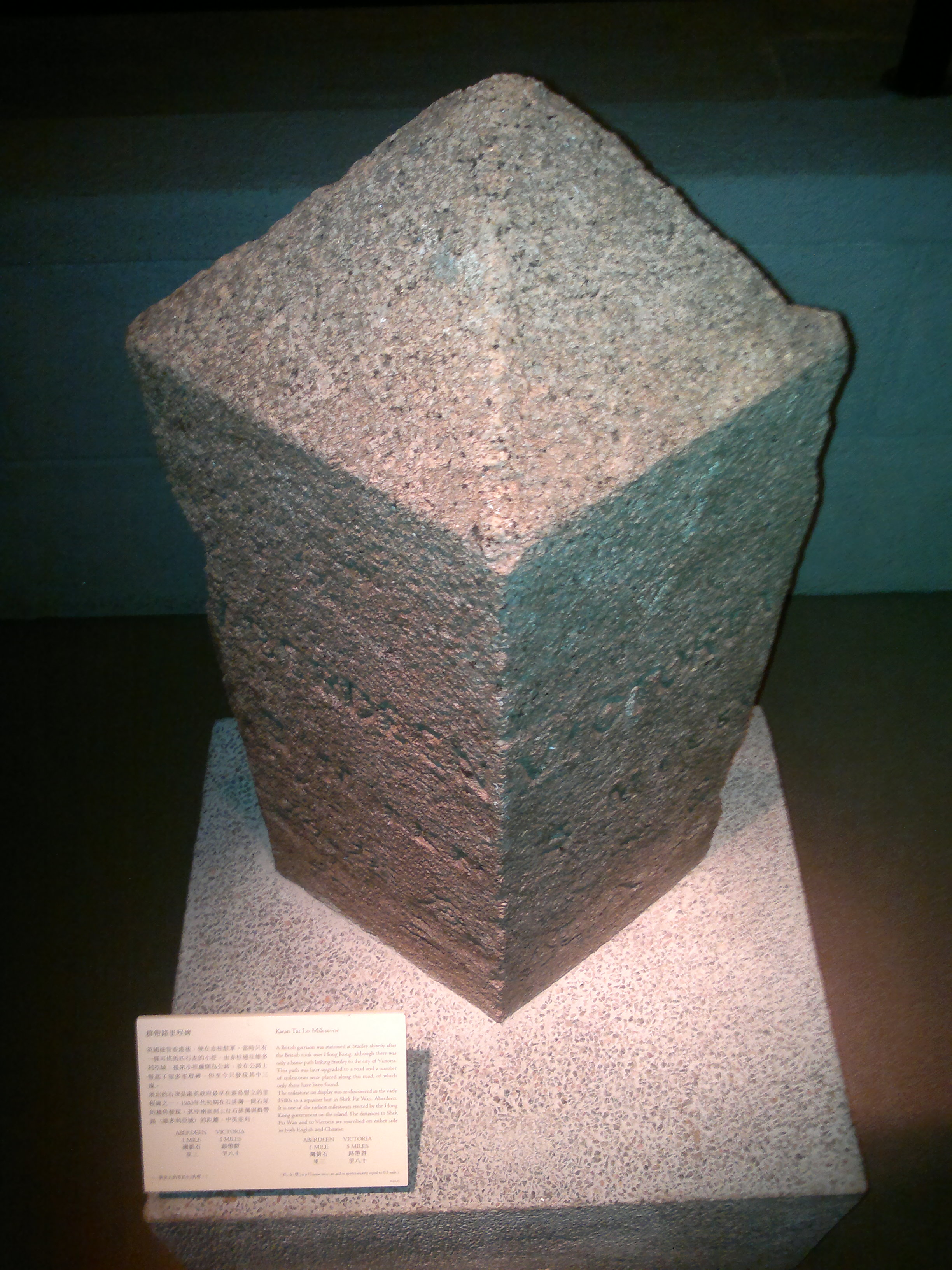 Kwan Tai Lo Milestone in History Museum